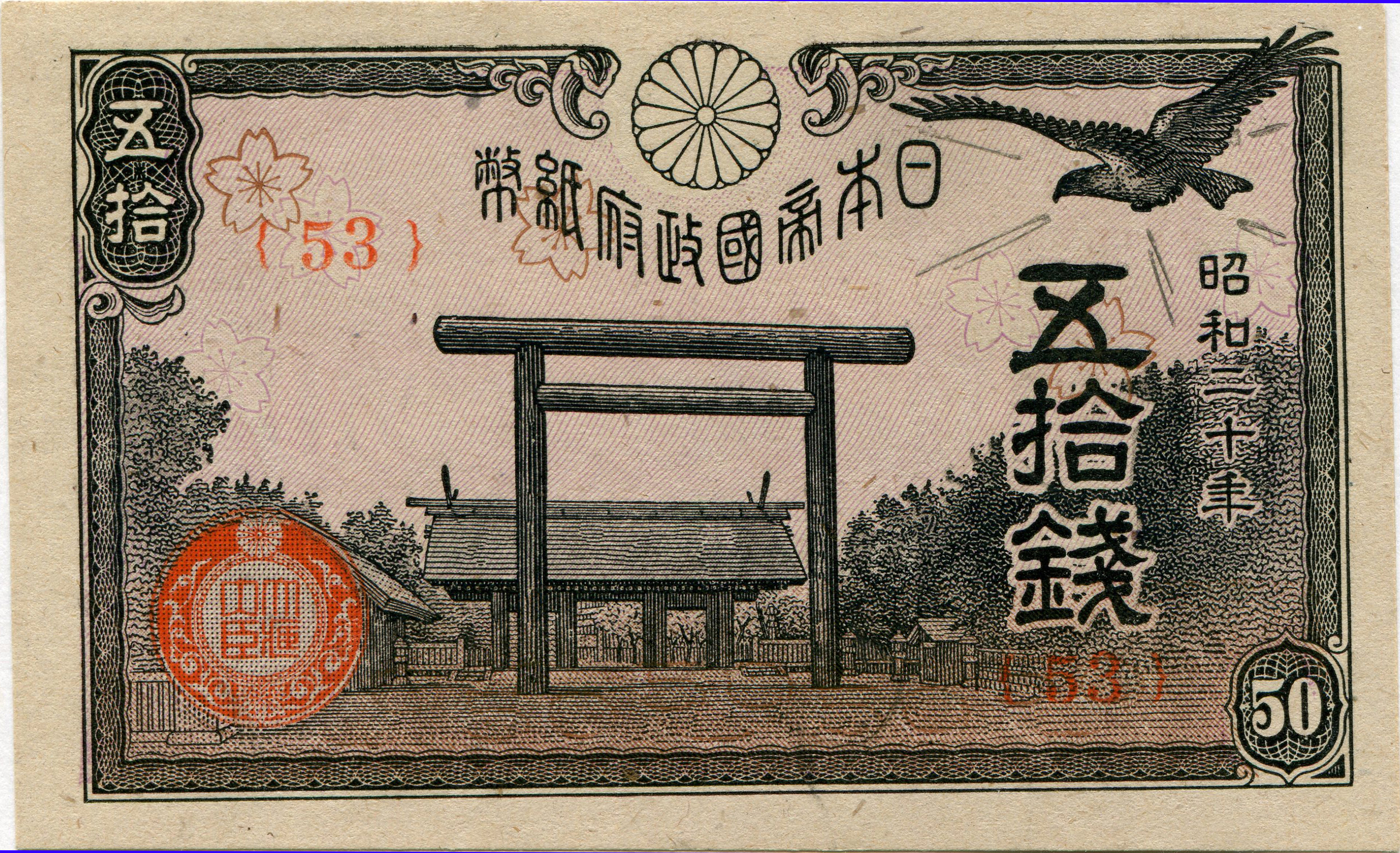 Japanese government small-face-value paper money, Series A ”Yasukuni" 50 Sen (1/2 Yen). Yasukuni Shrine, cherry blossom and the Golden Kite which appears in Nihon Shoki. First issued in 1945. Expired in 1948. 65mm x 105mm.